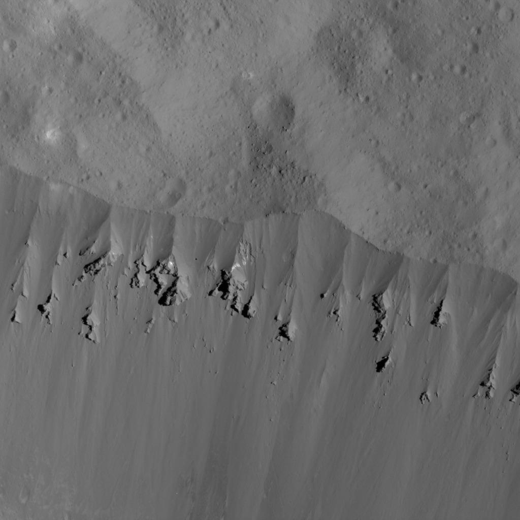 PIA22526: Landslides Along Occator Crater's Rim This image was obtained by NASA's Dawn spacecraft on June 9, 2018 from an altitude of about 27 miles (44 kilometers). The center of this picture is located at about 22.1 degrees north latitude and 244.4 degrees east longitude. Dawn's mission is managed by JPL for NASA's Science Mission Directorate in Washington. Dawn is a project of the directorates Discovery Program, managed by NASA's Marshall Space Flight Center in Huntsville, Alabama. JPL is responsible for overall Dawn mission science. Orbital ATK Inc., in Dulles, Virginia, designed and built the spacecraft. The German Aerospace Center, Max Planck Institute for Solar System Research, Italian Space Agency and Italian National Astrophysical Institute are international partners on the mission team. For a complete list of Dawn mission participants, visit For more information about the Dawn mission, visit